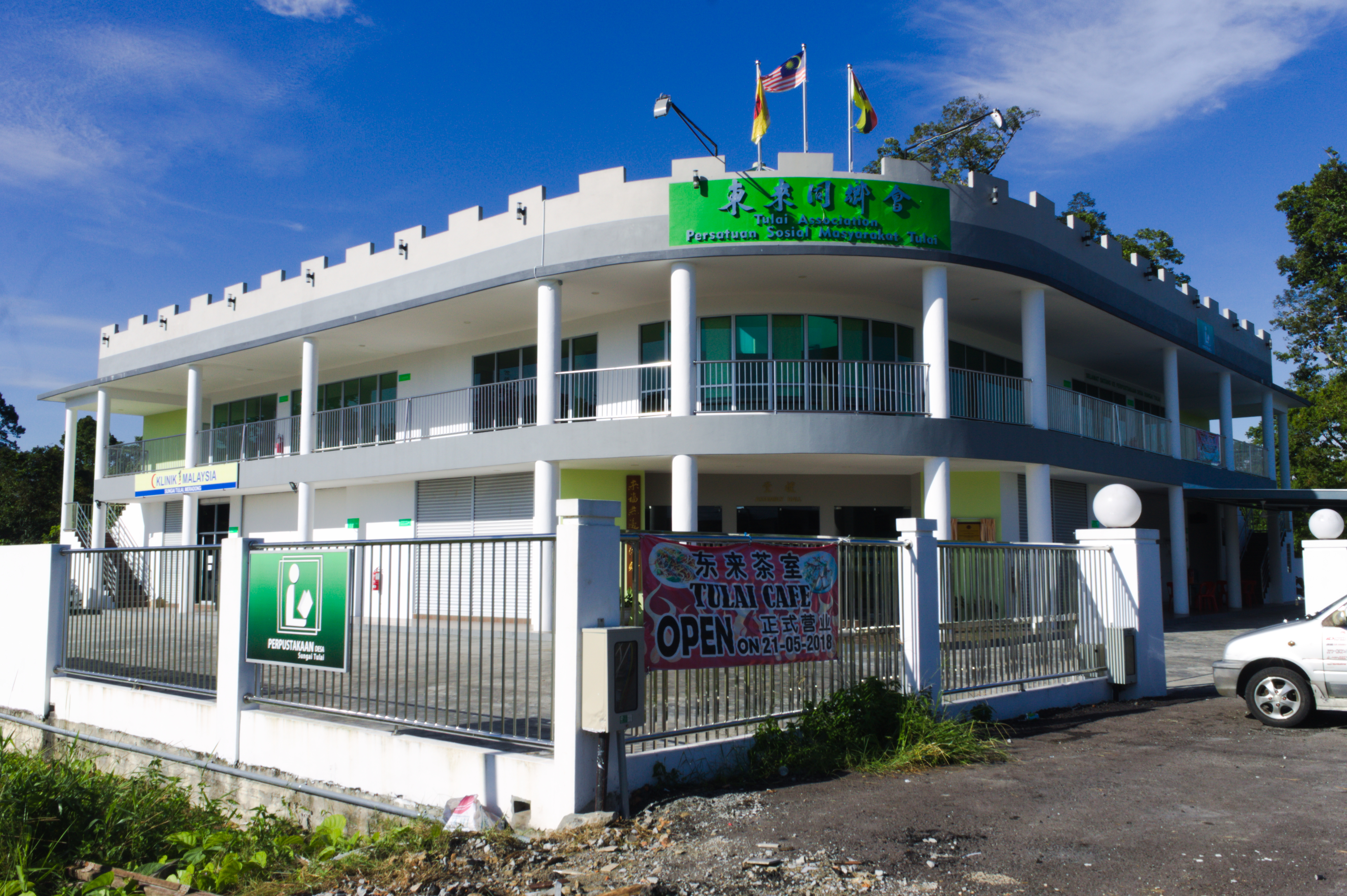 The Tulai Association. It has a community clinic, a library, a cafe, and a community hall.